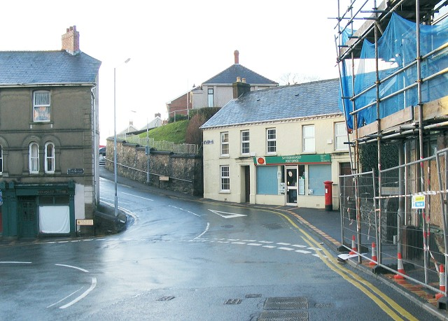 Brynamman Post Office (Recreated) This is a recreation of the following 1955 photo from the Frith collection: Apart from the building in the foreground on the left edge having gone, most of the other features remain. The loss of the building has allowed the tight corner to improve. The bridge wall on the right has been moved further out to widen the road and pavement and the phone box has gone to allow the cutting of a new pavement up the hill in the distance.